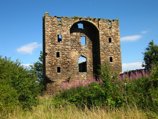 Saltcoats Castle. Late 16th century ruin of tower house and courtyard. The tower has 5 stories remaining with an arch bridging at the 5th stage. The castle was still inhabited about 1790 but most of the building was removed for agricultural improvements about 1823-4.